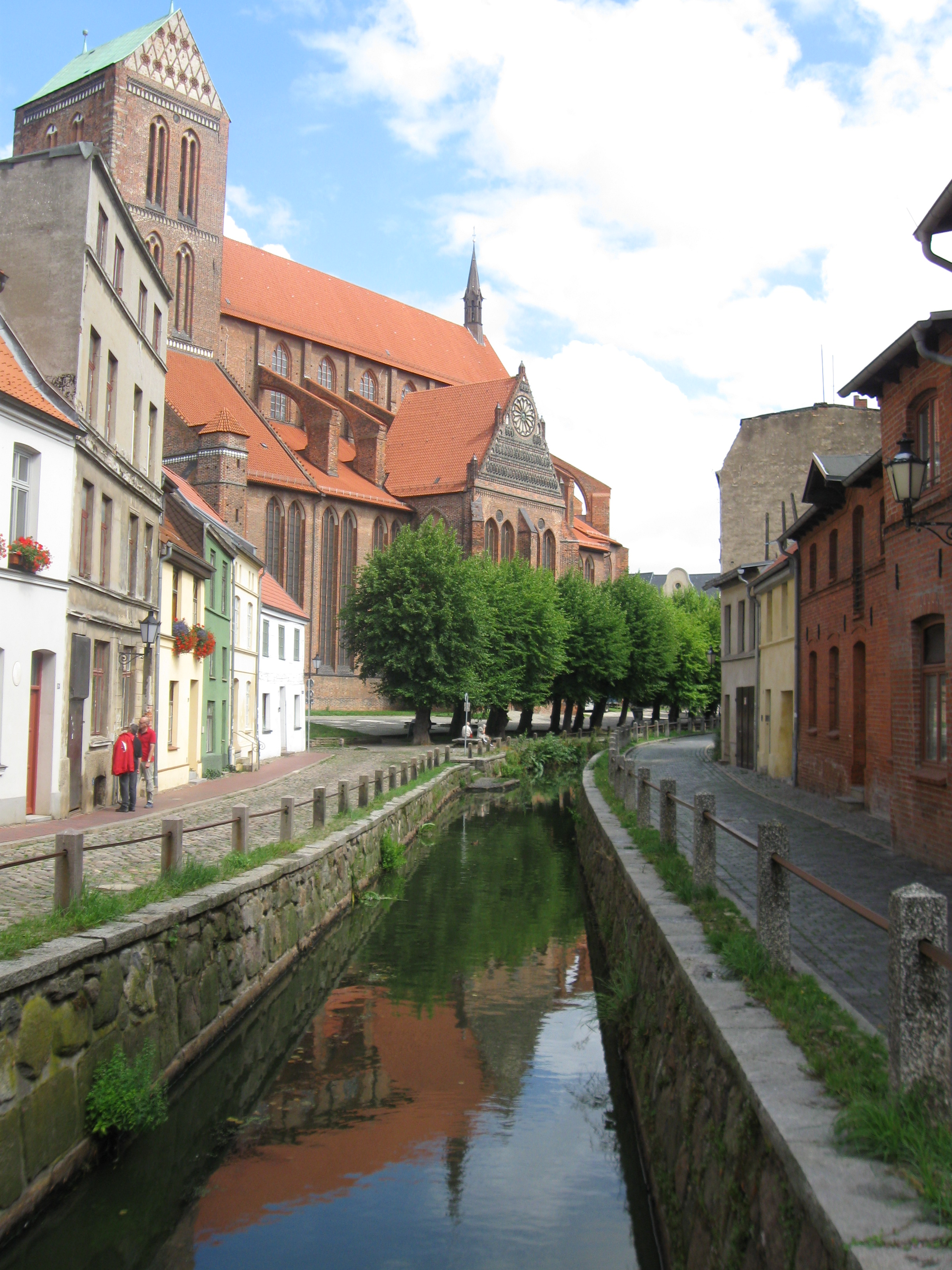 The frontside of the curch Nikolaikirche in Wismar